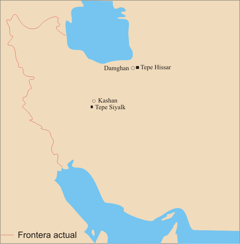 Situation of Siyalk and Tepe Hissar